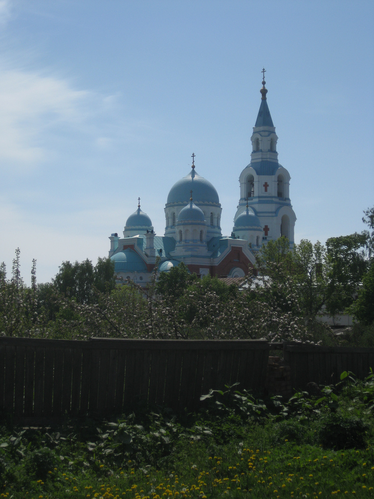 Orthodox Valaam Monastery in Russia